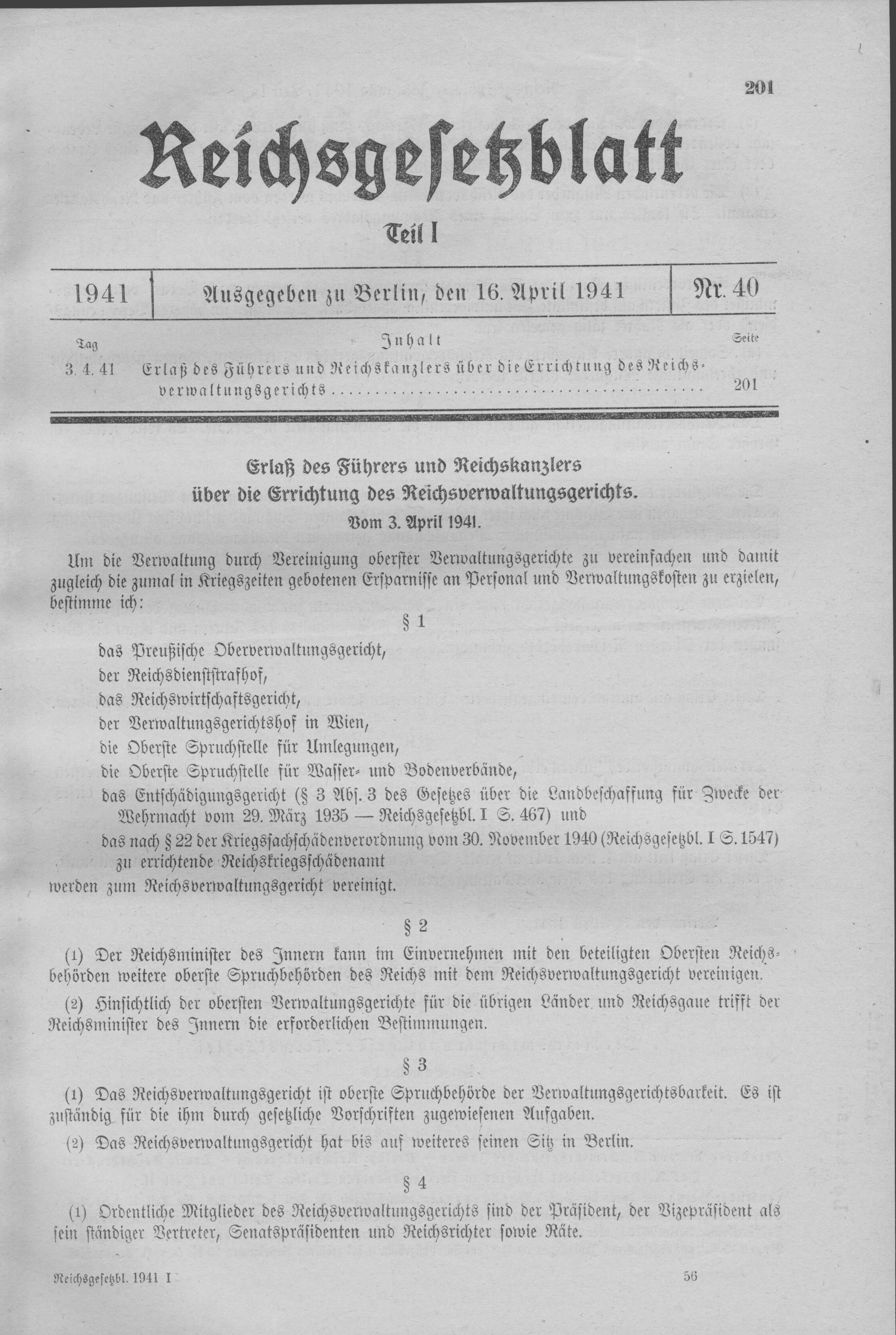 Scan from the Imperial Law Gazette of Germany, 1941, part 1